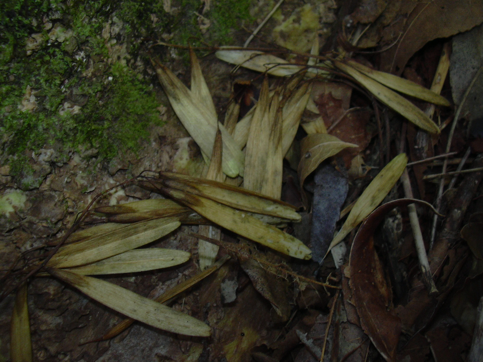 Fraxinus uhdei (seeds). Location: Maui, Makawao Forest Reserve